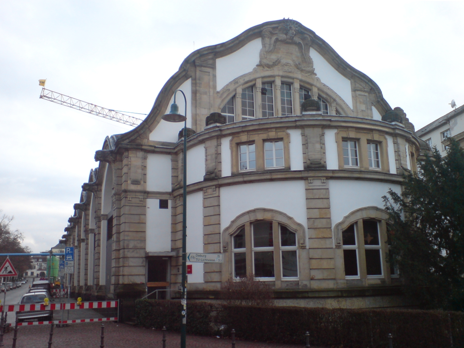 The "alte Maschinenhalle" ("Old Machine Hall") at the TU Darmstadt in Darmstadt, Germany.